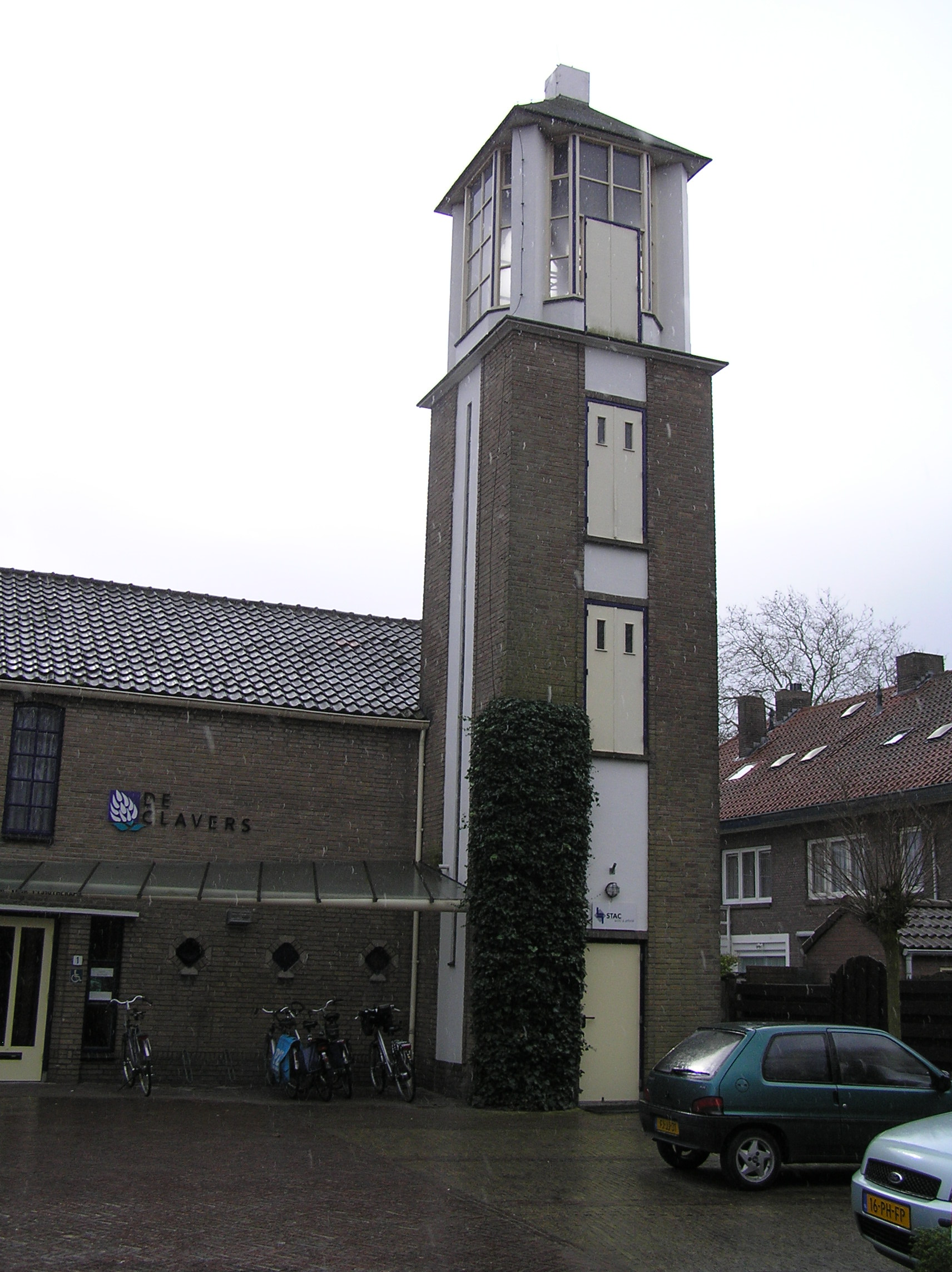 Watchtower of an old Fire Station in Goes